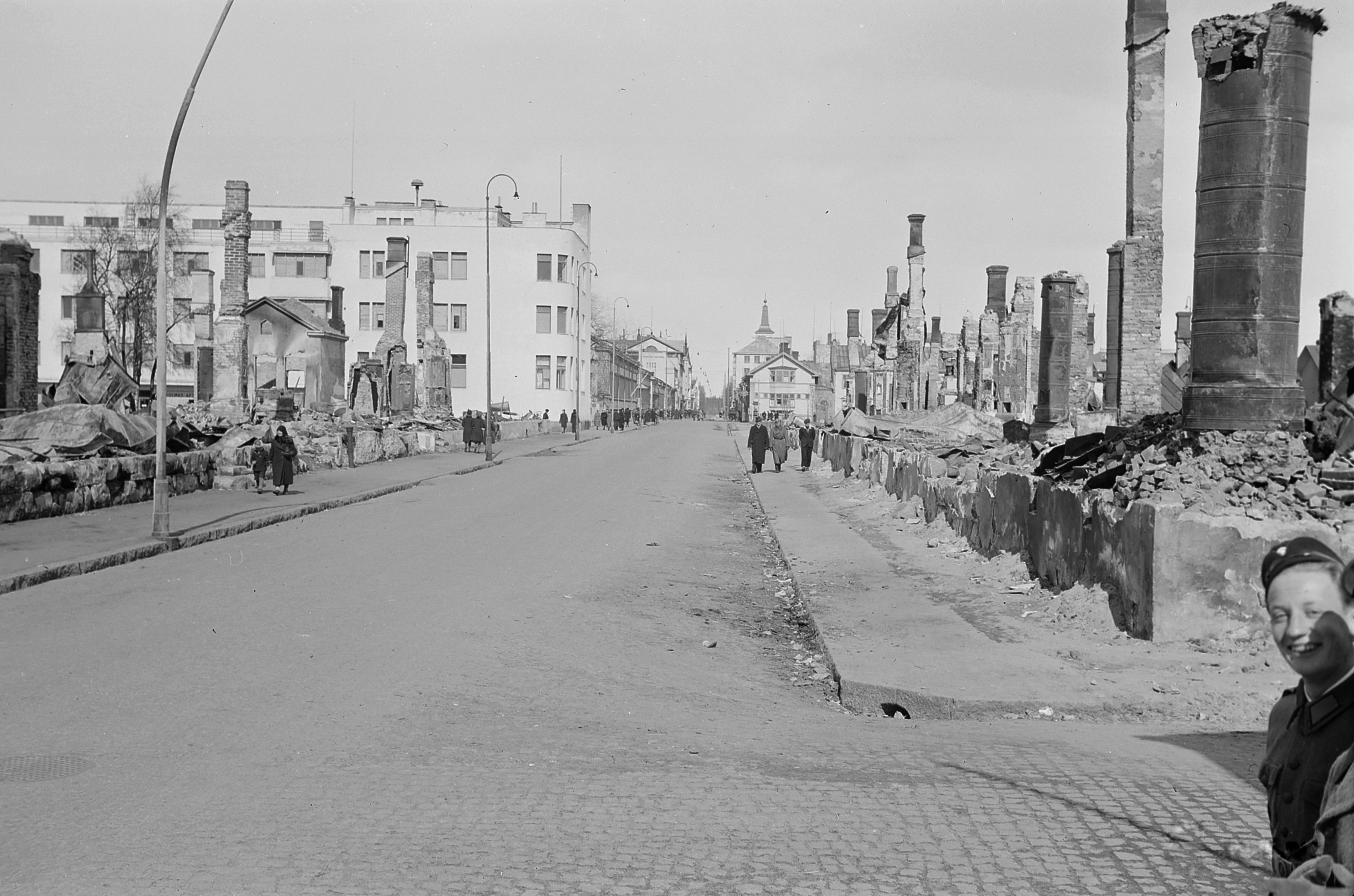 Kirkkokatu street after bombing raid in Oulu in 1944.